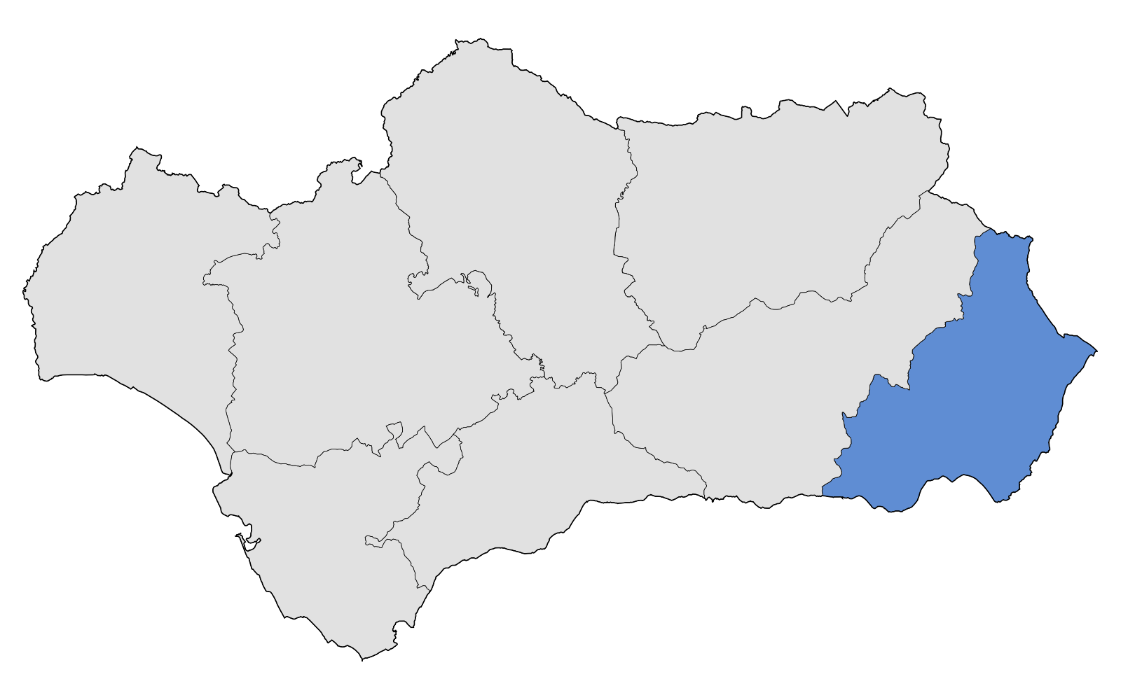 Map of province of Almería in relation to Andalusia